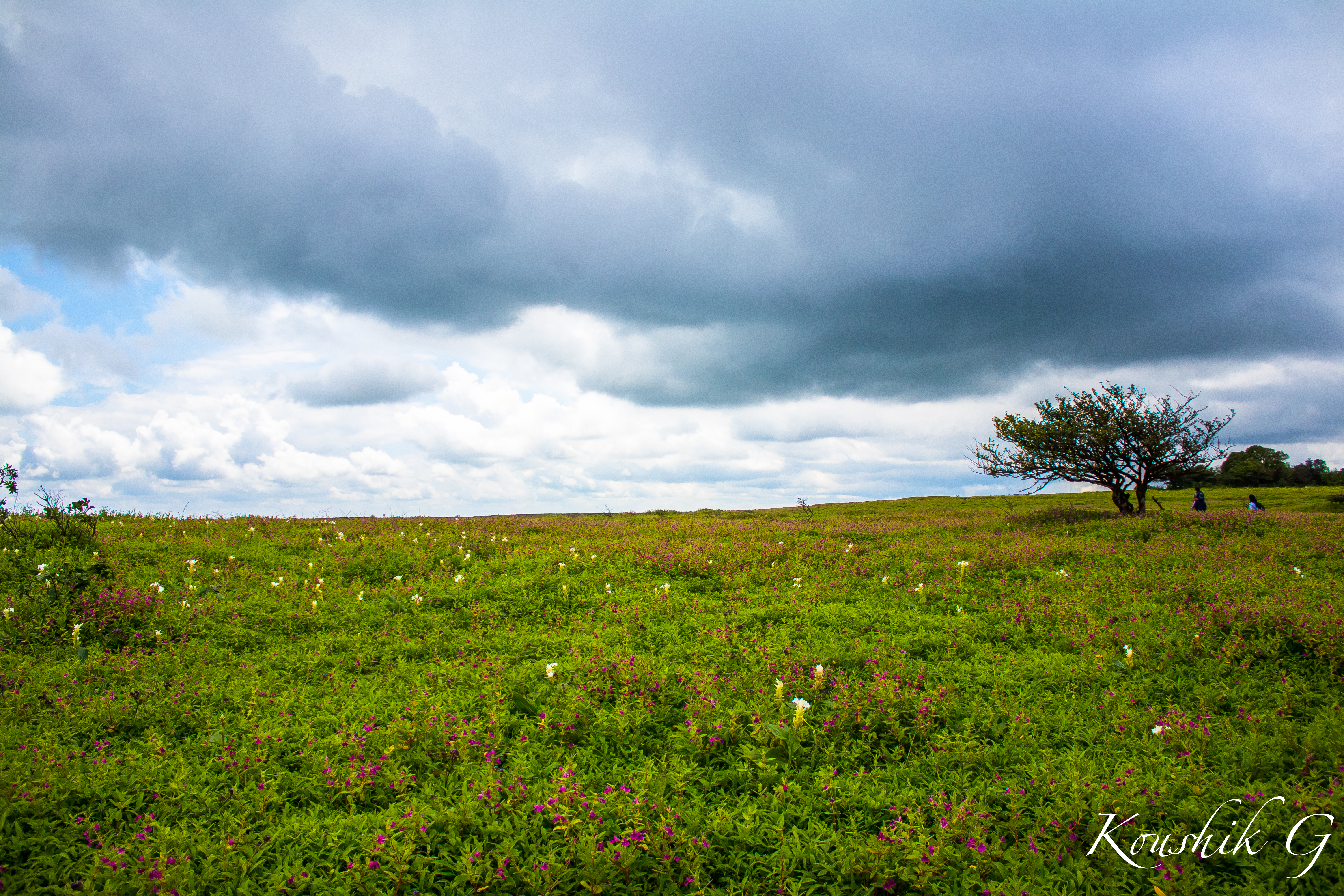 Kaas Pathar